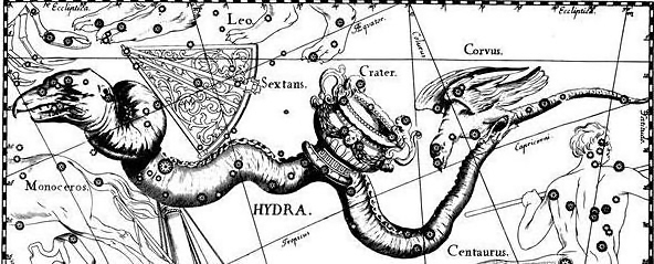 Hydra, Corvus and Crater constellations